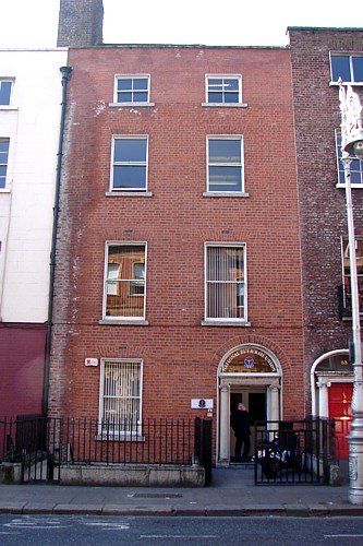 Photograph of Dr Robert Cryan (1827-1881), Physician and lecturer, located at 54 Rutland Square, (now called Parnell Square), Dublin, Ireland.